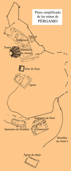 Plan of the ruins in Bergama. Dibujo realizado por Nicolás Pérez para el artículo de Pérgamo. Agosto 2004.